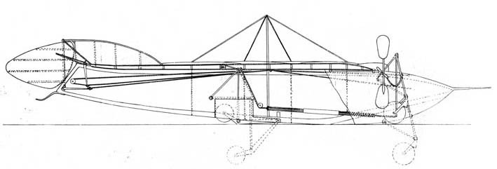 Scheme of the first landing gear, drawn by Alphonse Pénaud (1850-1880), dead more than 70 years ago.